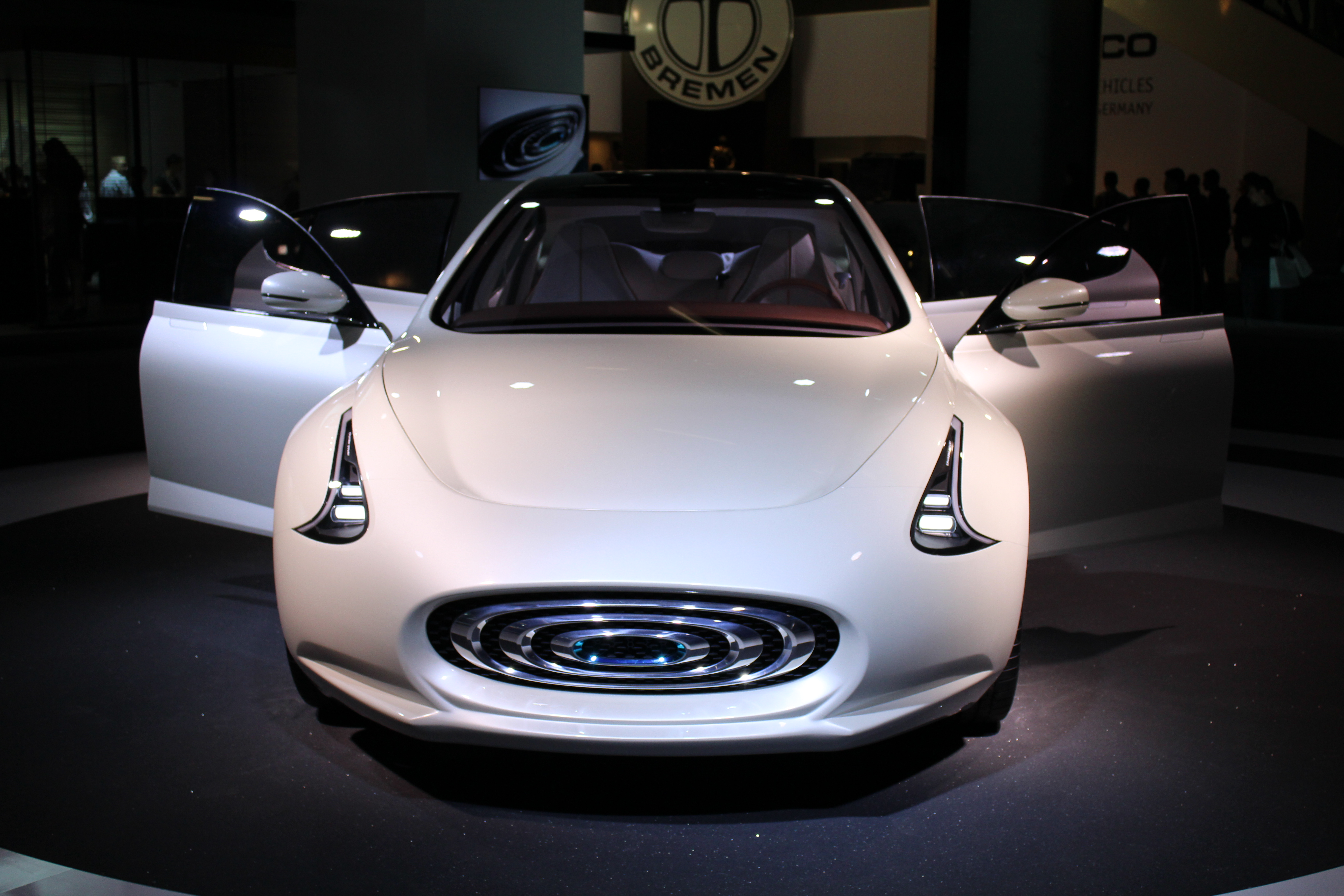 Passenger vehicles being displayed in 2015 International Motor Show Germany.